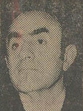 Ettela'at newspaper, No.14741, dated Tir 3, 1354 (24 June 1975), page 29.